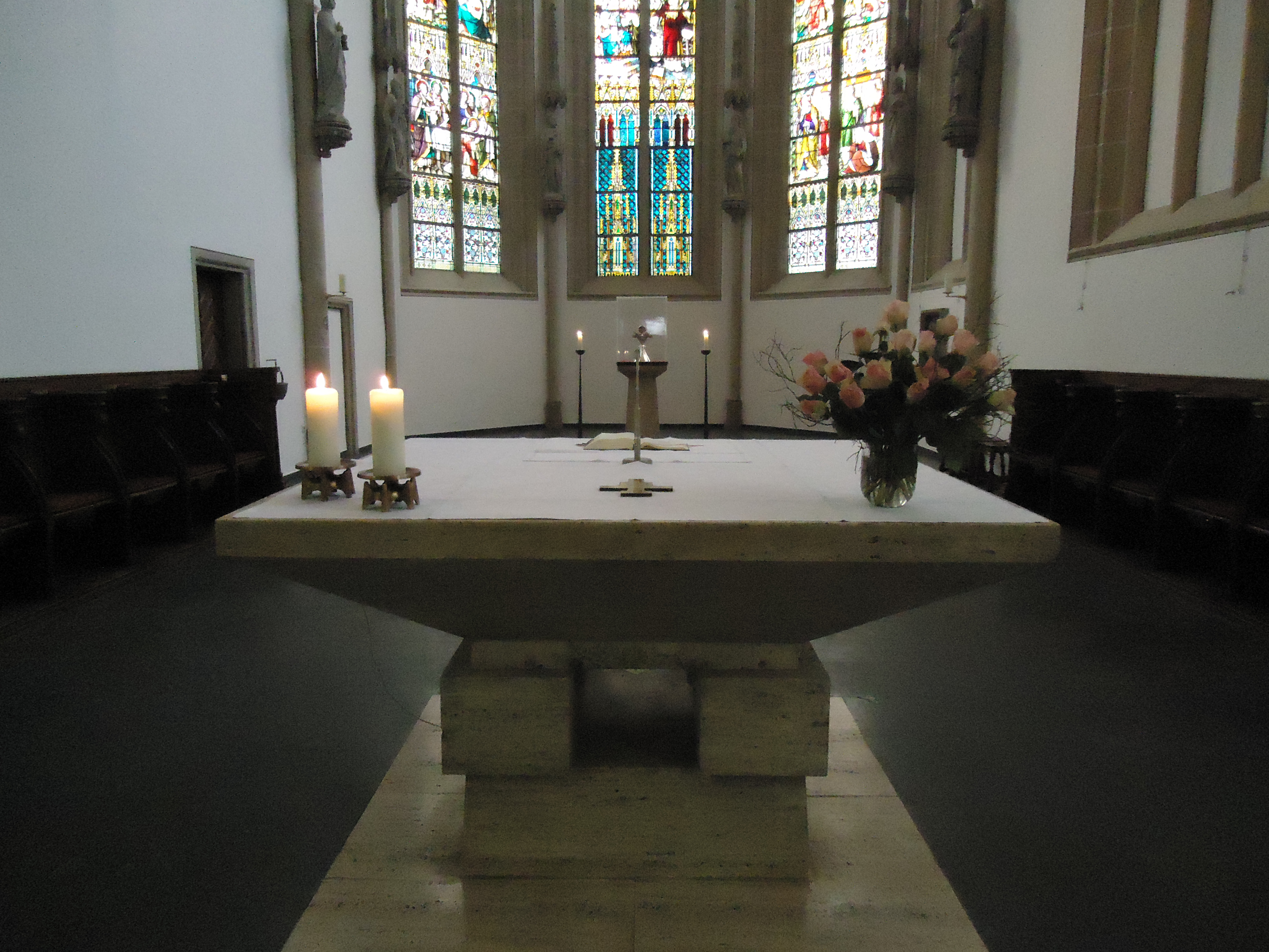 Laetare